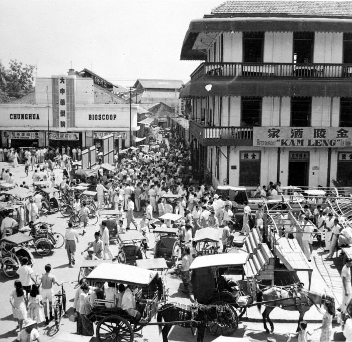 Reproduction from negative. Glodok, in Jakarta